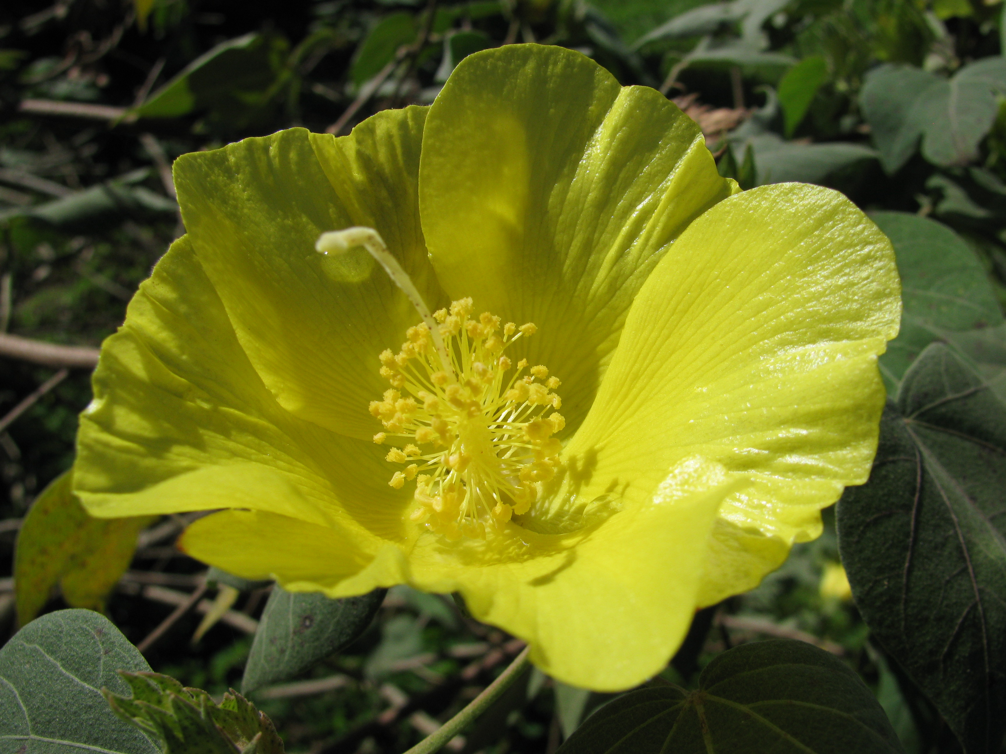 Gossypium tomentosum (Mao, Hawaiian cotton) Flower at Kahanu Gardens NTBG Kaeleku Hana, Maui, Hawaii. November 04, 2009 #091104-0742 Image Use Policy